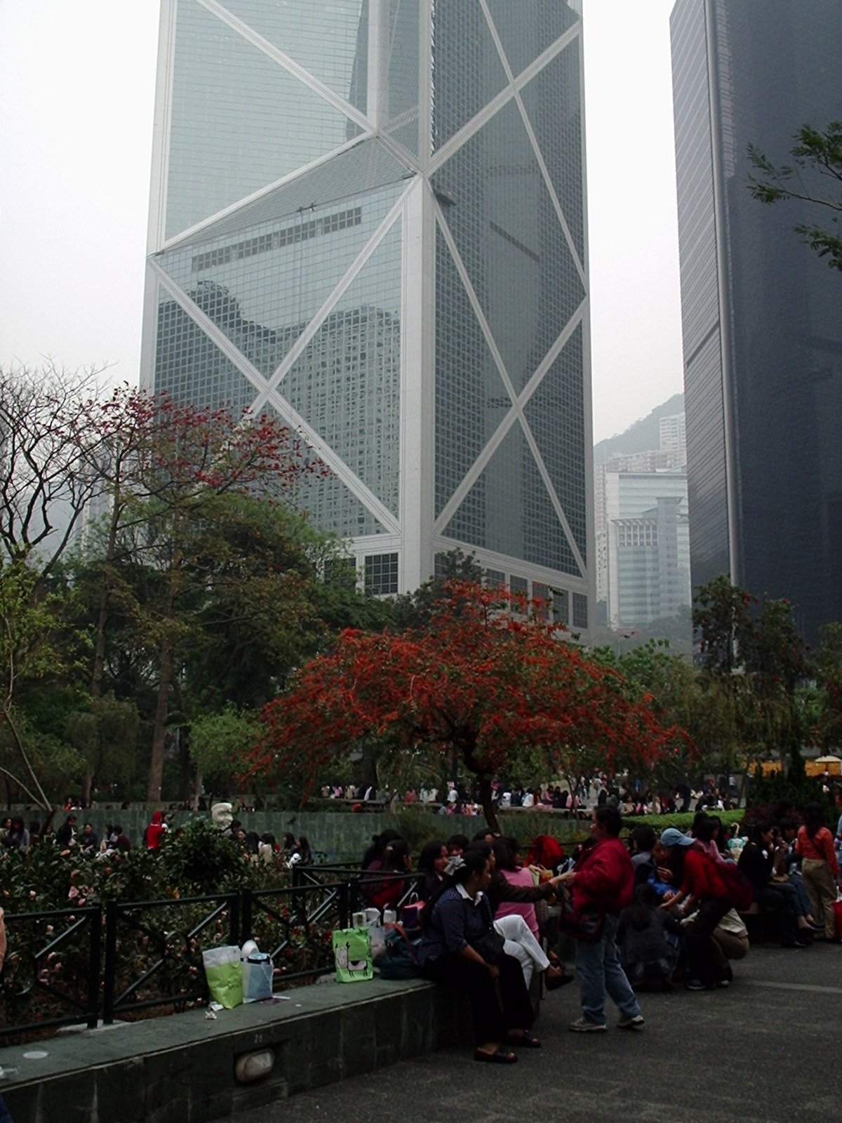 Legions of Fillipino maids gather in Statue Square on Sundays when they have the day off. Here they can be seen underneath the Bank of China tower.